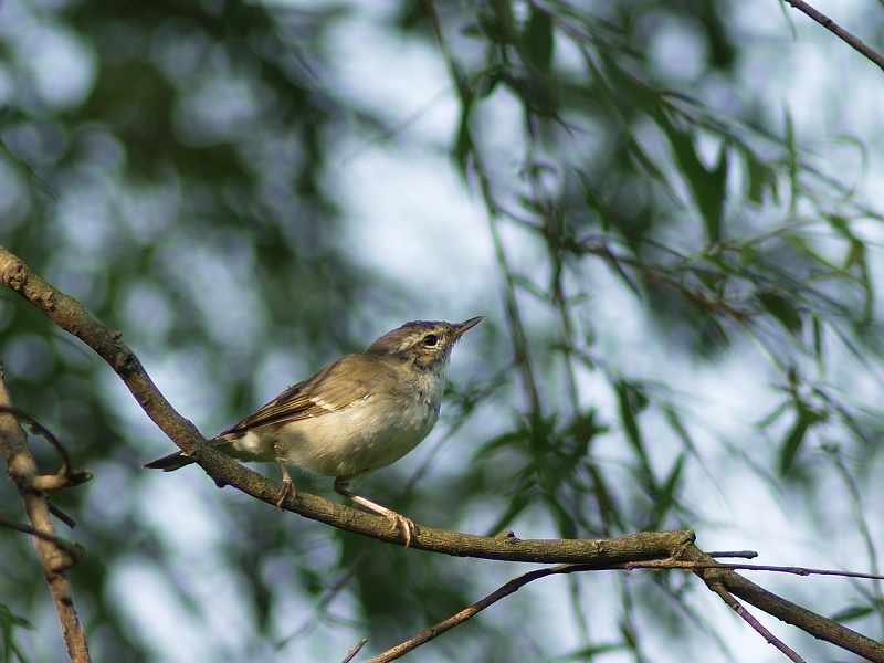 Phylloscopus borealis（極北柳鶯）, Taipei, 2008.